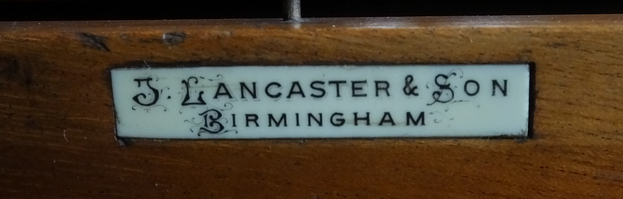 The J Lancaster & Son Stereoscopic View camera dating from c 1898. 150mm lens B.TES S G D C PARIS